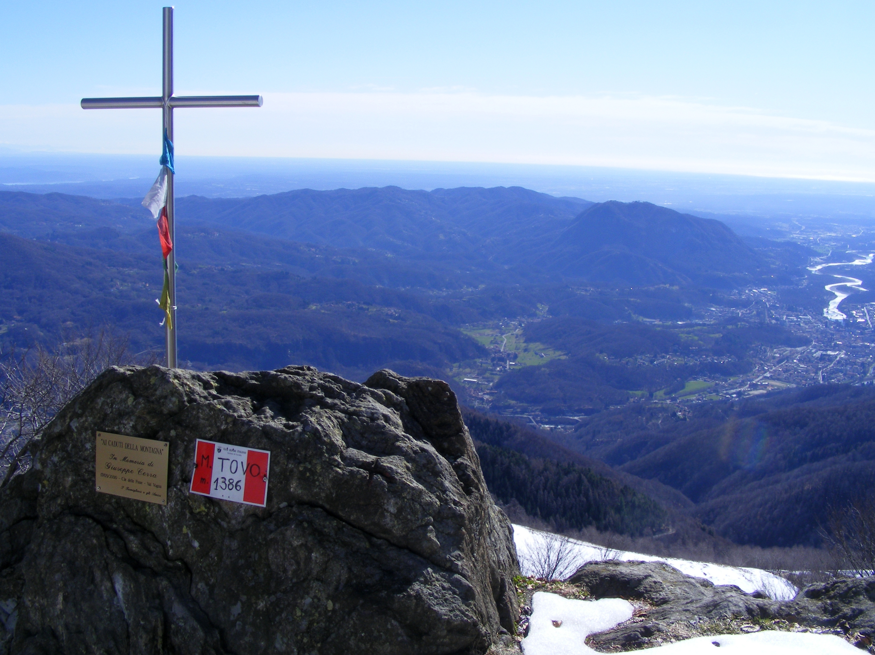 Mount Tovo (Valsesia, province Vercelli VC, region Piedmont, Italy): the cross on the summit of mount Tovo.